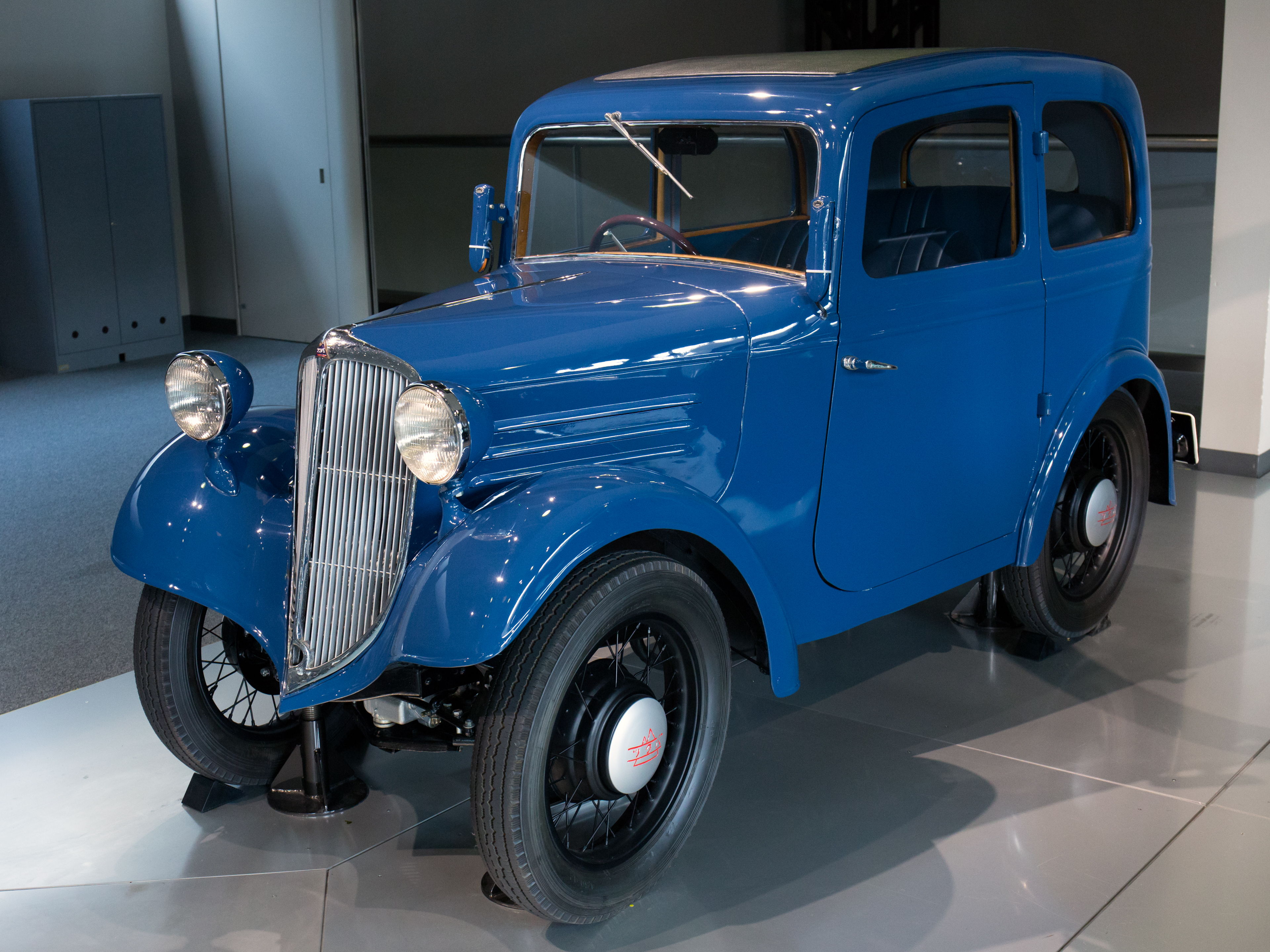 1935 the Tsukuba (Tsukuba-go, by Tokyo Jidosha Seizo Corporation)